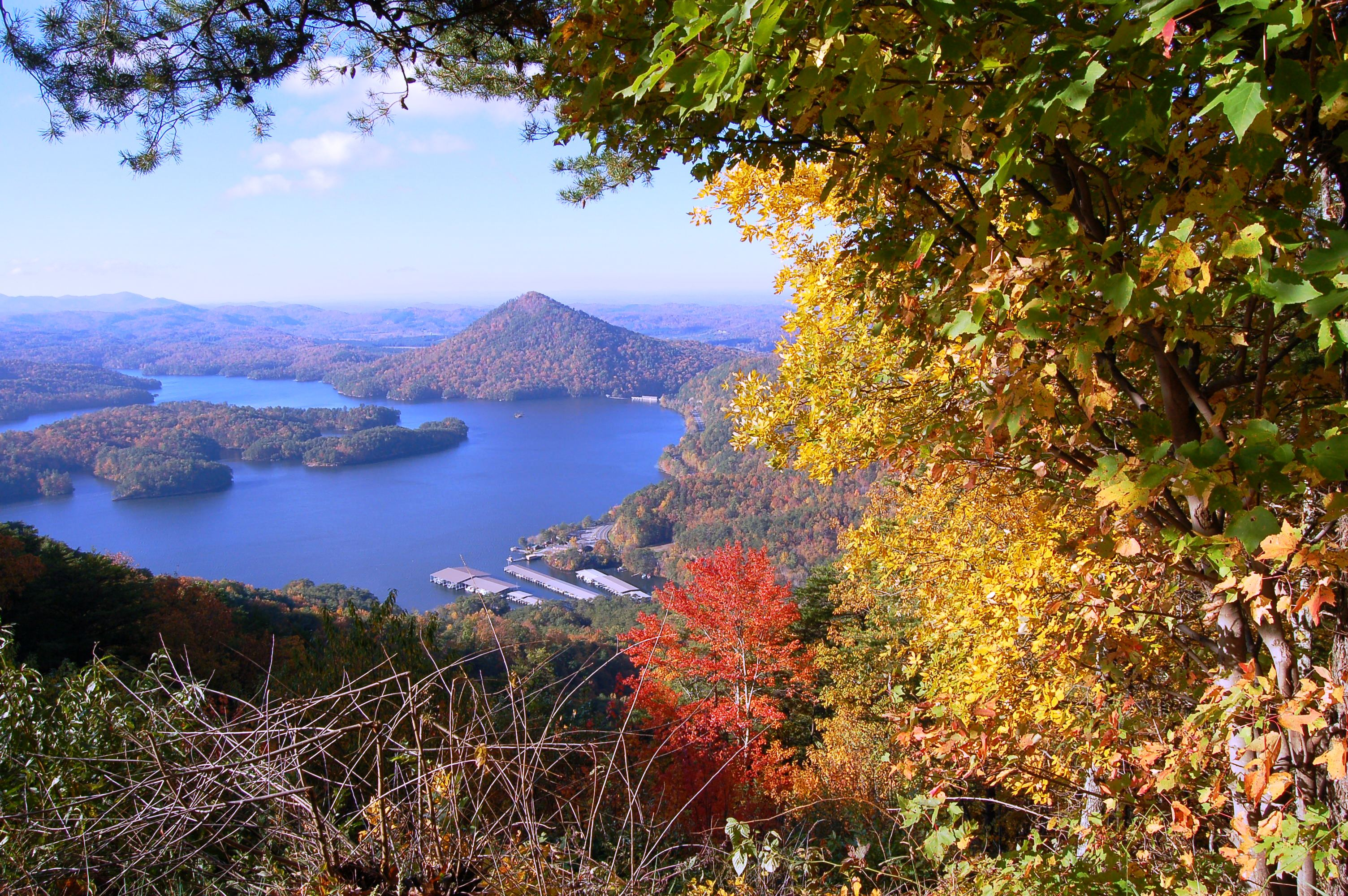 The Ocoee Scenic Byway, the first national forest byway in the nation, winds through the Cherokee National Forest.